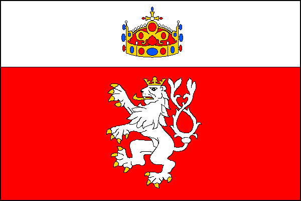 Municipal flag of Nový Bydžov town, Hradec Králové District, Czech Republic.